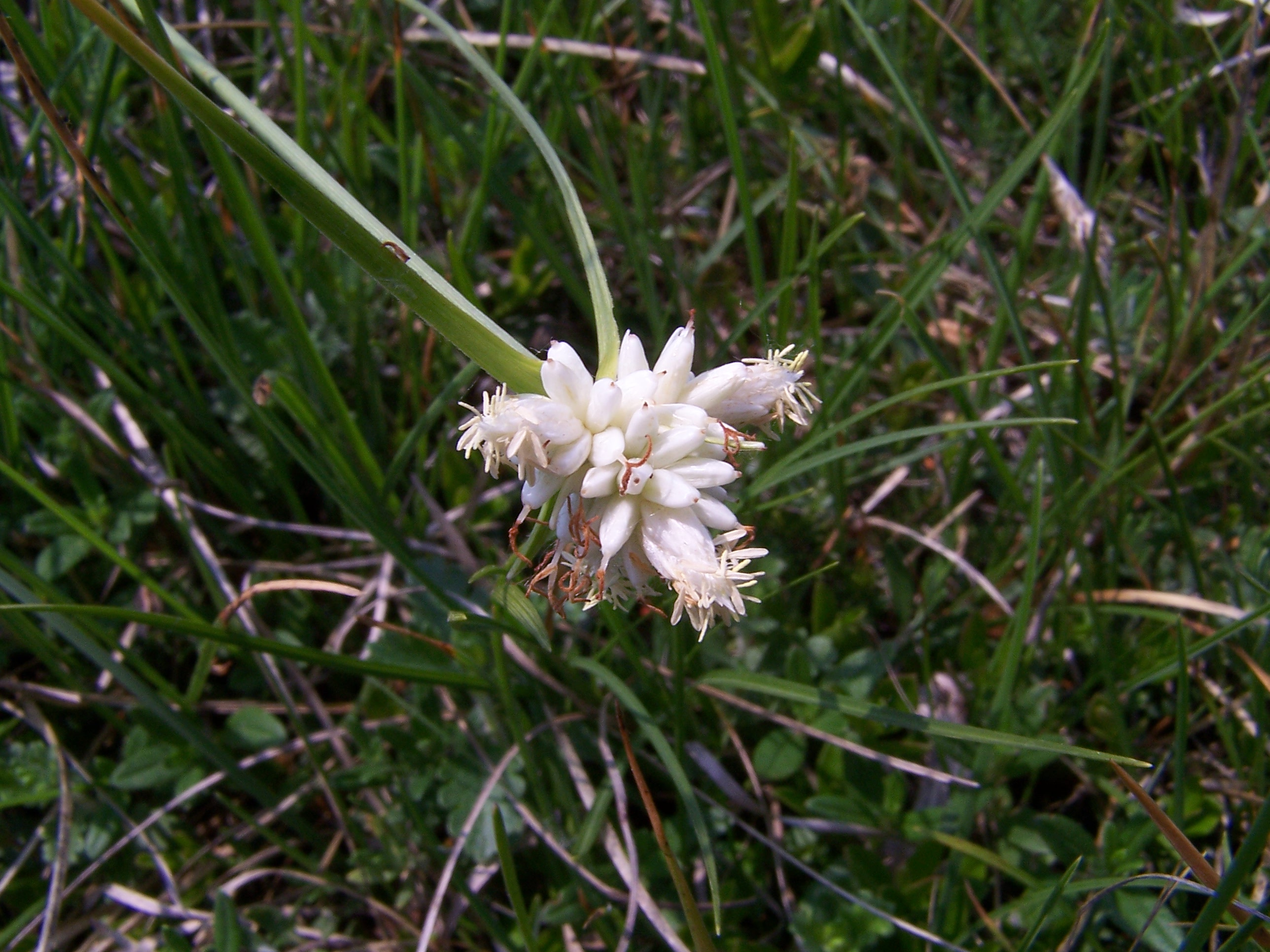 Desription: Carex baldensis, flowers Source: Own picture, Bergamasque Prealps, Bergamo, Italy, may 2005. Author: User:marcobarci